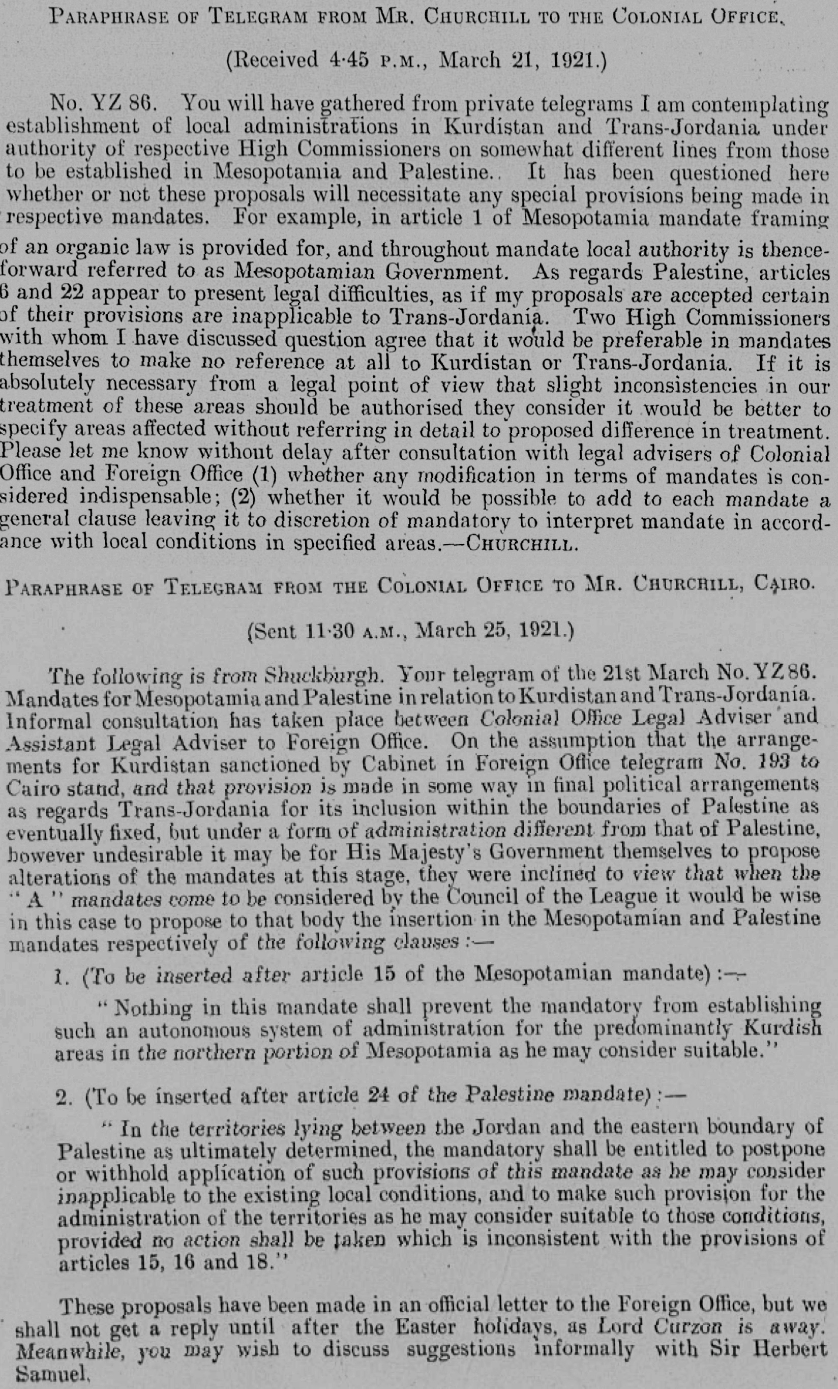 British Government memoranda regarding Article 25 of the Palestine Mandate with respect to Transjordan, 21 March 1921 and 25 March 1921